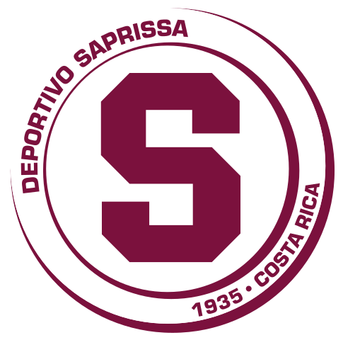 New Logo C.D. Saprissa